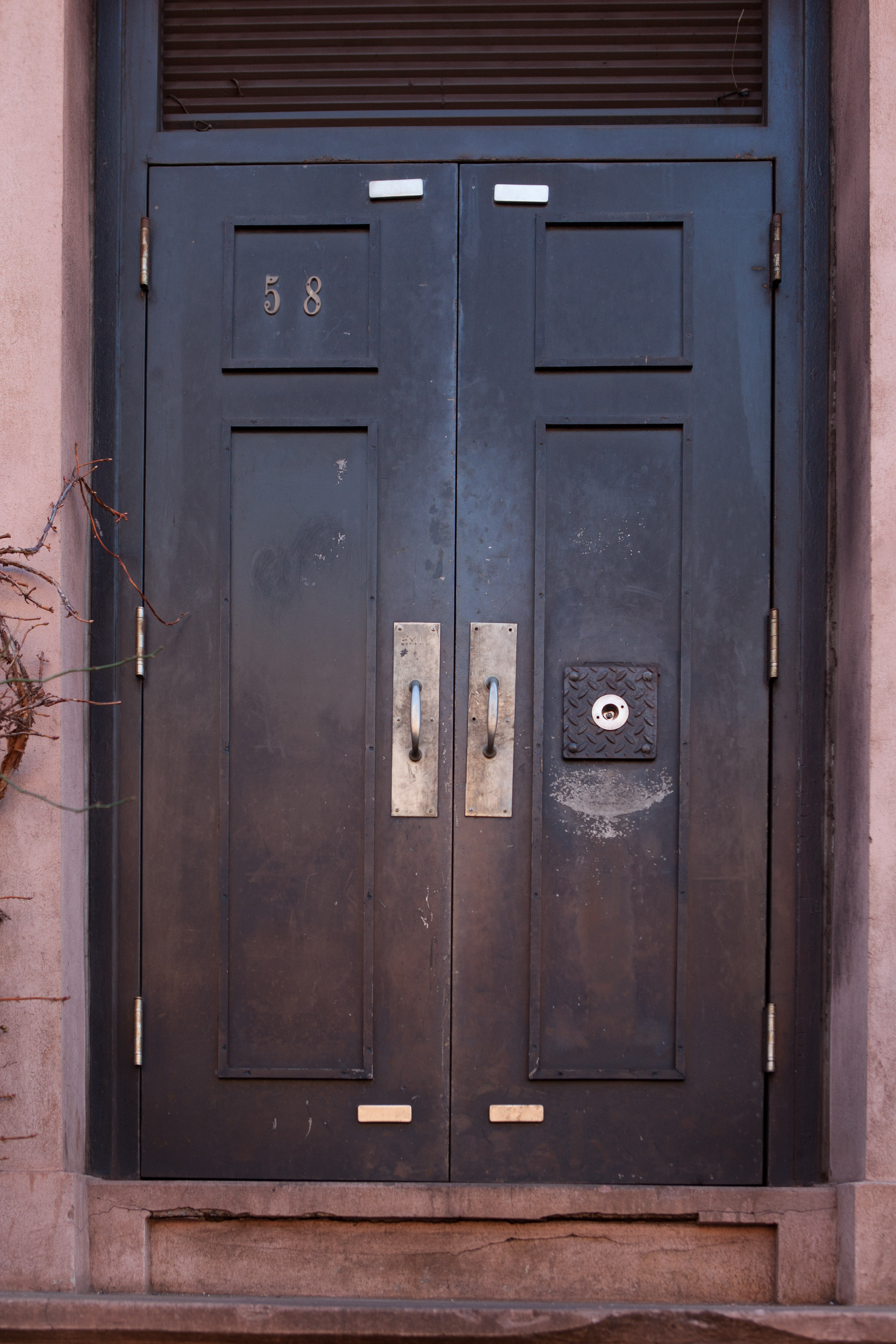 The door to 58 Joralemon, a New York subway service entrance disguised as a townhouse in Brooklyn Heights.